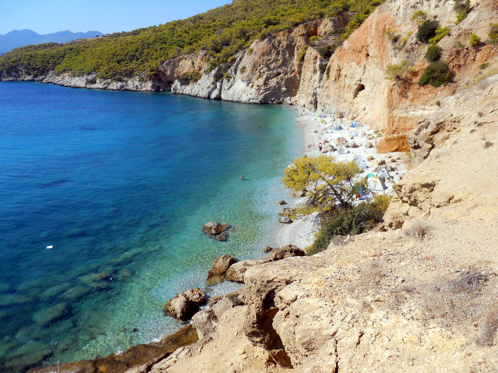 Halikiada is usually filled up with tents of naturists